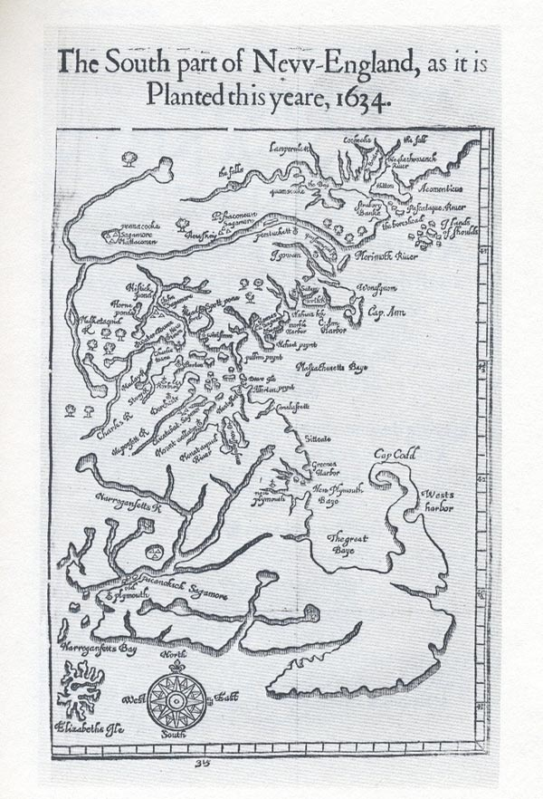 Map contained in William Wood's New England Prospect (London, 1634)